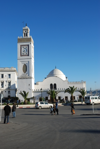 Jamaa al-Jdid (Algiers)